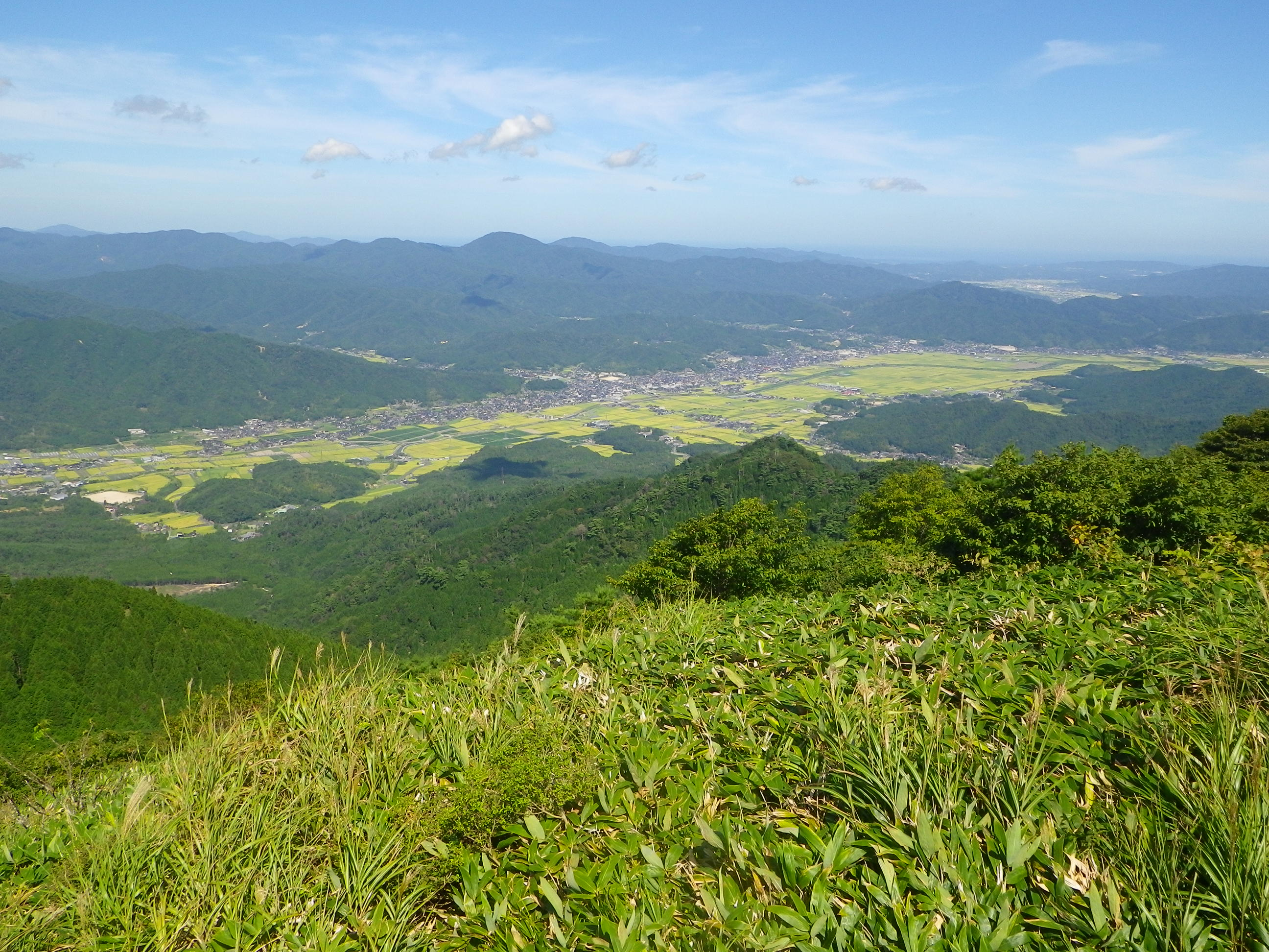 Kayadani valley as seen from the SSE. Shot at Mount Nabezuka in Oe mountains.